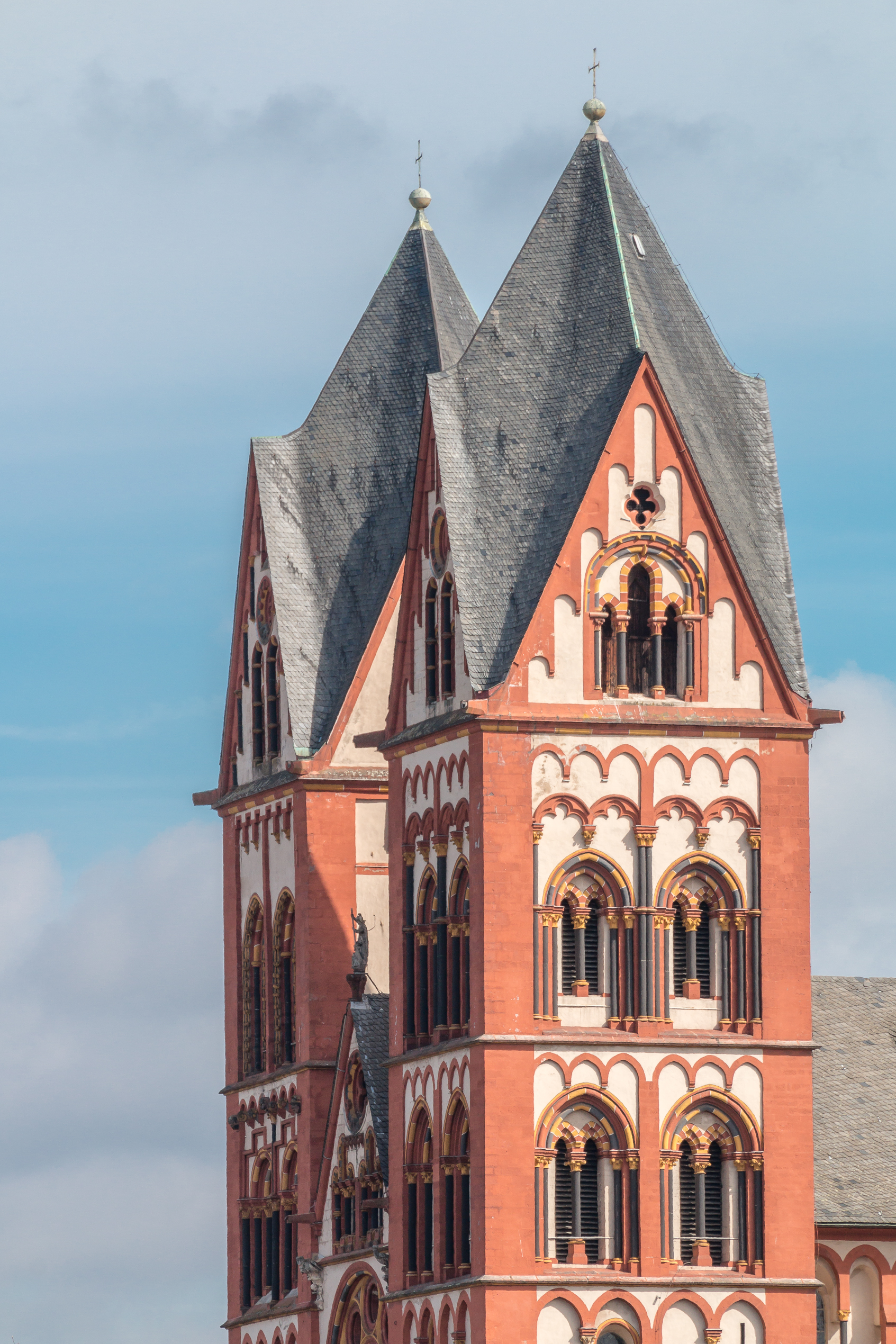 Limburg Cathedral